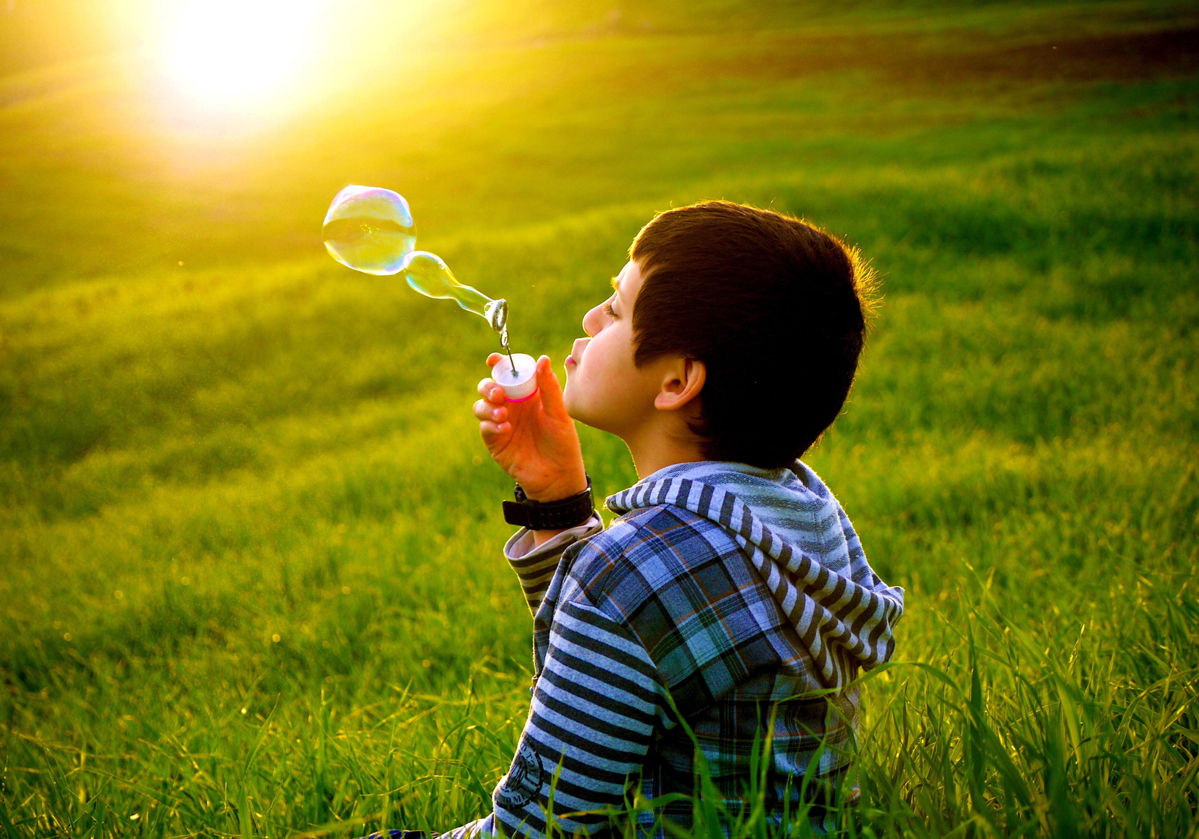 A child blowing soap bubbles in a grassland of Algeria, taken in 2016